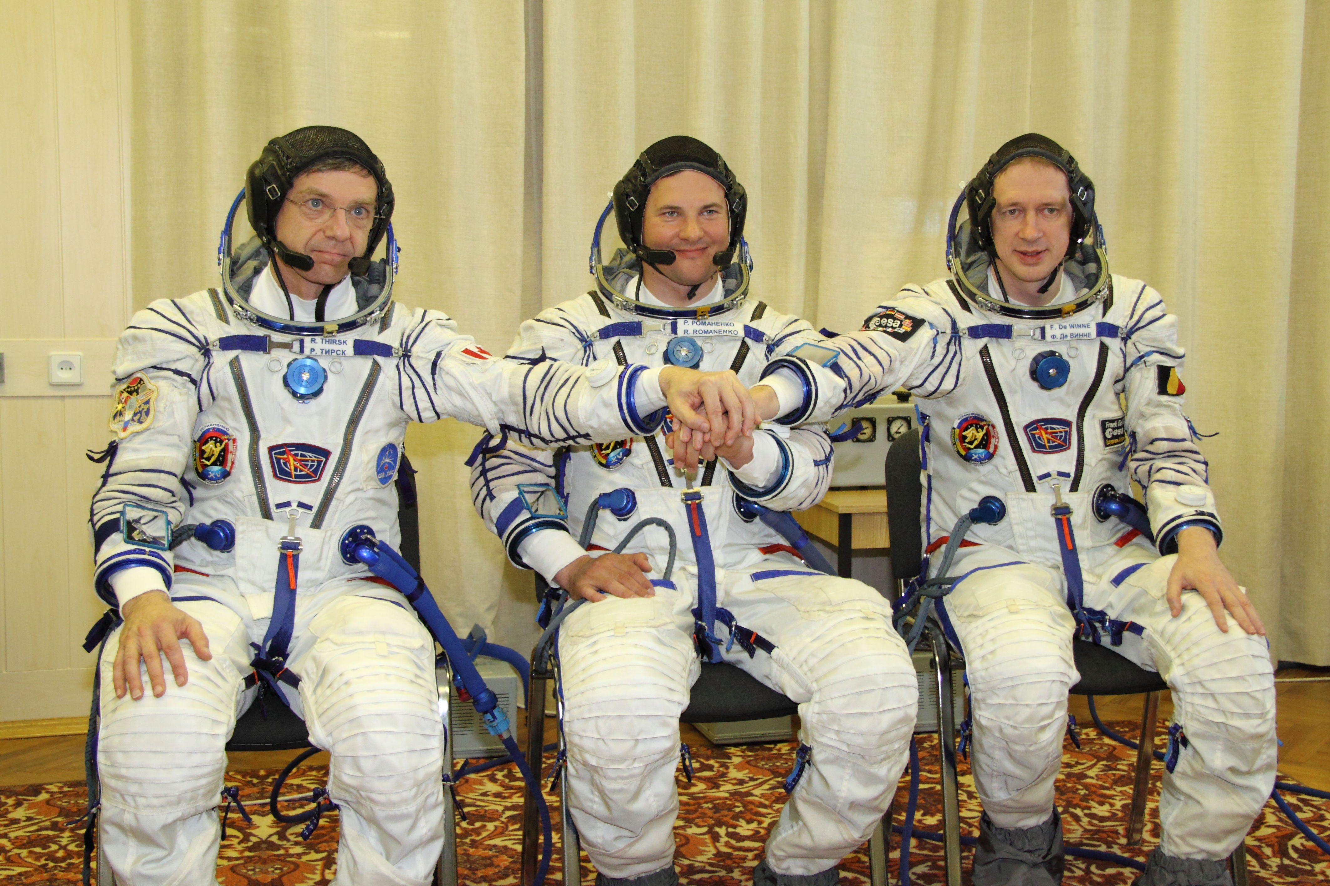 At the Baikonur Cosmodrome in Kazakhstan, Expedition 20 Flight Engineer Bob Thirsk of the Canadian Space Agency, Russian Cosmonaut Roman Romanenko and Flight Engineer Frank De Winne of the European Space Agency pose for photographers on 18 May 2009 as they prepared for a check of the Soyuz TMA-15 spacecraft they will launch in on 27 May on a trip to the International Space Station. The trio will join three other residents on the station to form a six-person crew for the first time.